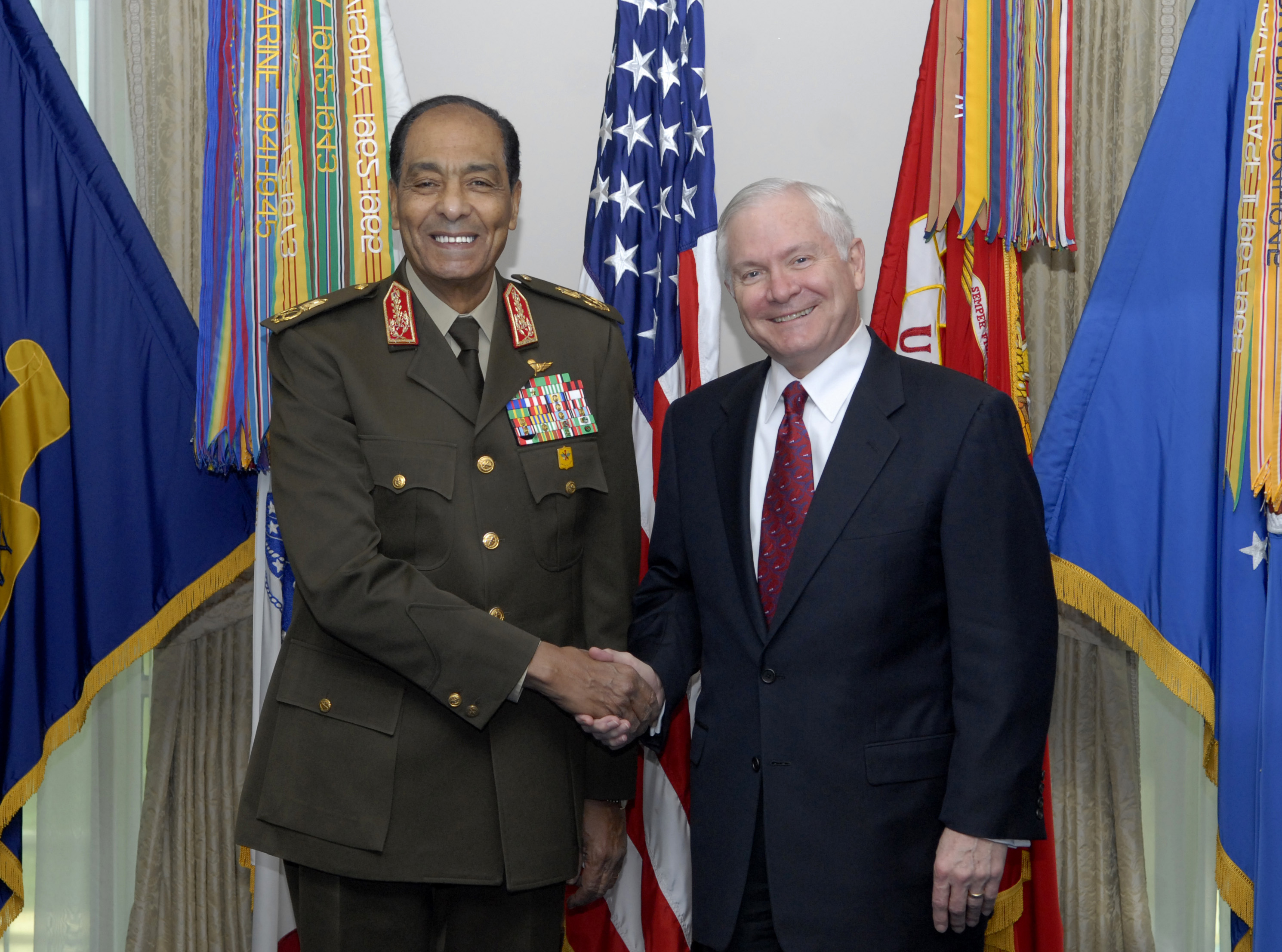 Secretary of Defense Robert M. Gates, right, poses for a photo with Egyptian Minister of Defense Field Marshal Mohamed Hussein Tantawi in the Pentagon March 25, 2008, prior to a working luncheon.